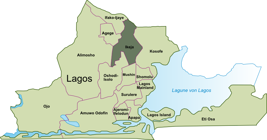 Map of the Local Governement Areas of Lagos; Ikeja highlighted